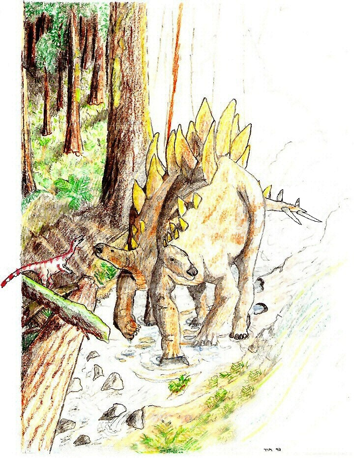 Sketch of a jurassic scene: coelurus watches as two stegosaurs are following a river through the forest. Made by Tim Bekaert, 1996.